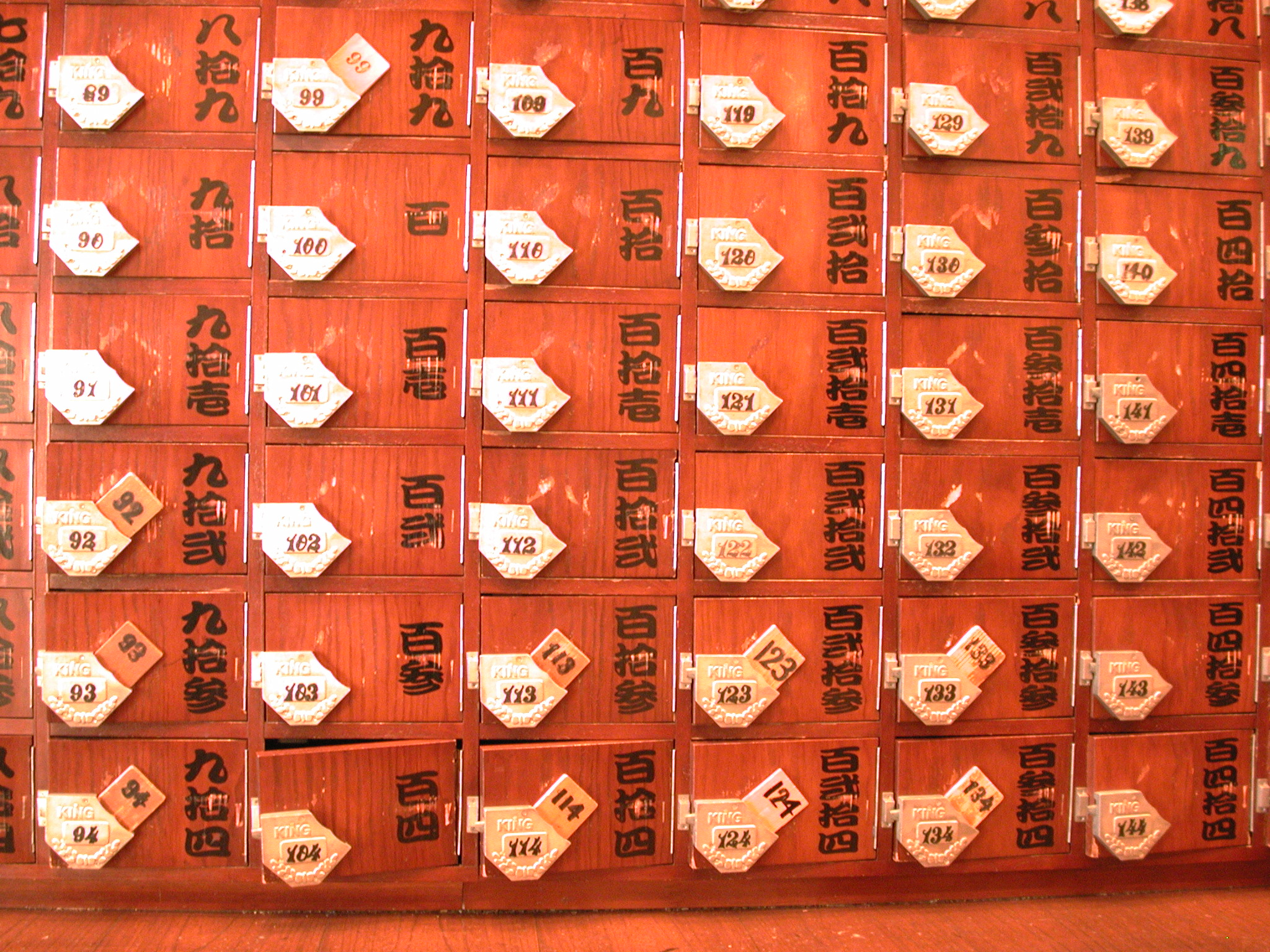 At a sushi restaurant near the Tokyo National Museum.